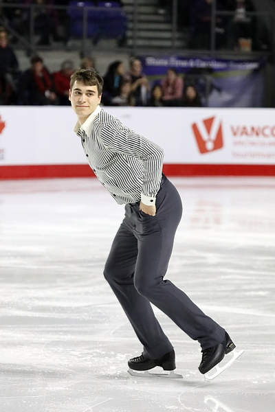 Nicolas Nadeau at the 2018 Canadian National Figure Skating Championships